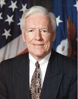 DR. LAWRENCE J. DELANEY. Acting Secretary of the Air Force as of Jan. 20, 2001 Dr. Lawrence J. Delaney is the assistant secretary of the Air Force for acquisition, Washington, D.C. He is the Air Force's service acquisition executive, responsible for all Air Force research, development and acquisition activities. He provides direction, guidance and supervision of all matters pertaining to the formulation, review, approval and execution of acquisition plans, policies and programs. Additionally, he serves as the chief information officer. Delaney has more than 37 years of international experience in high technology program acquisition, management and engineering, focusing on space and missile systems, information systems, propulsion systems and environmental technology. He served as a member of the National Academy of Sciences Board on Army Science and Technology from 1992 to 1999, serving as the vice chairman from 1992 to 1994. The Department of the Army in 1989 awarded him the Outstanding Civilian Service Medal for his work on the Army Science Board from 1981 to 1988. Delaney, who is fluent in German, has written numerous articles in research and engineering journals. Prior to his appointment, Delaney was president of Delaney Group, Inc., a technical and business consulting firm he founded in 1997. From 1994 to 1997, he served as managing director of BDM Europe in Berlin, the European holding company for BDM International, where he was a corporate vice president. At the same time, he served as senior vice president and group manager of the Environmental and Management Systems Group at IABG, a 1,400-person high technology services firm in Munich/Ottobrunn, Germany, which was privatized by BDM International in 1993.